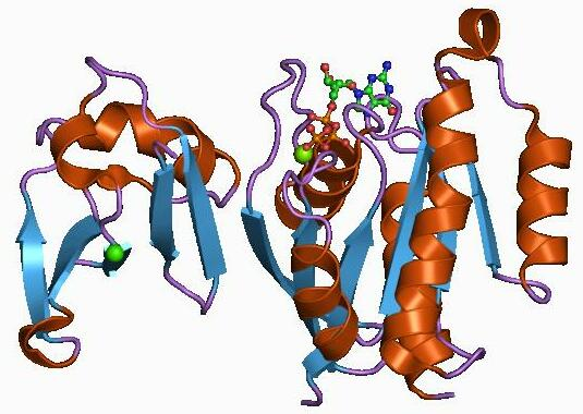 Cartoon representation of the molecular structure of protein registered with 1c1y code.